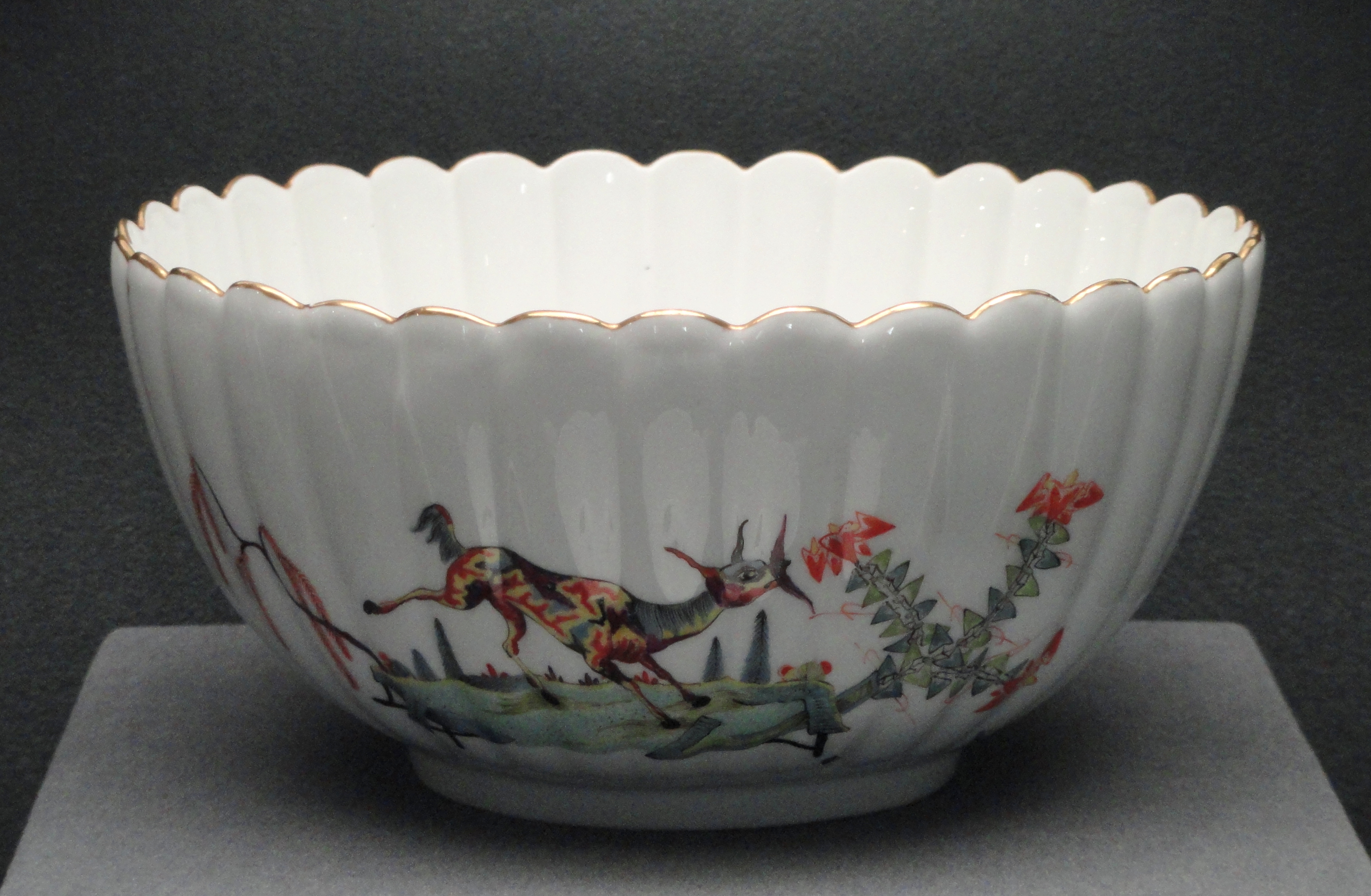 Exhibit in the Gardiner Museum, Toronto, Ontario, Canada. This artwork is in the public domain because the artist died more than 70 years ago.